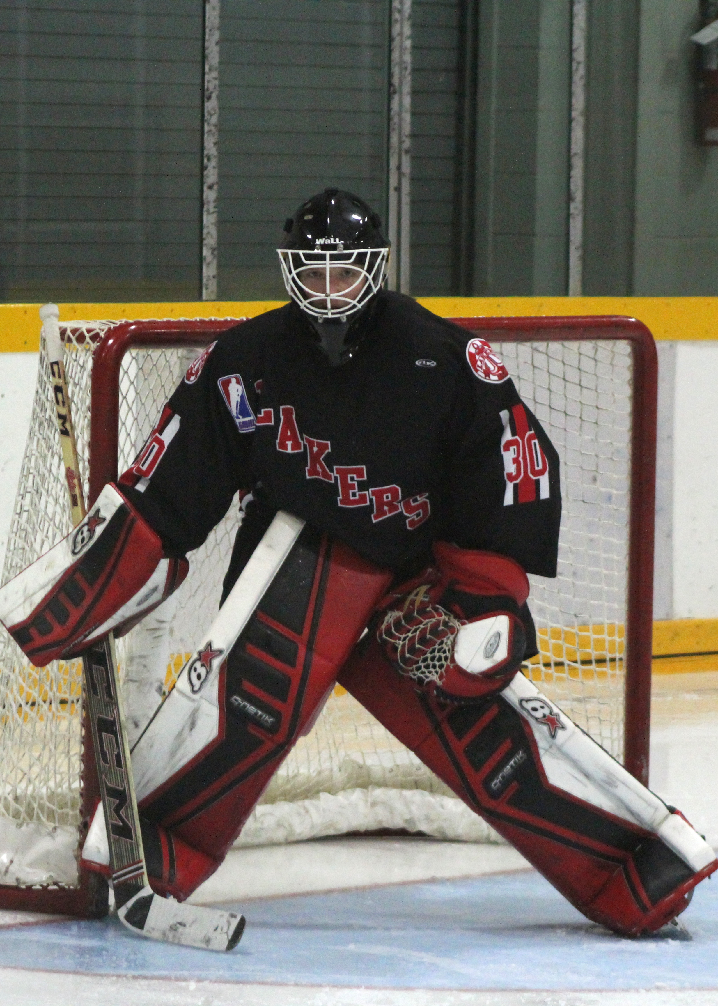 These images of GMHL Action action during the 2015-16 season are taken by Devan Mighton.